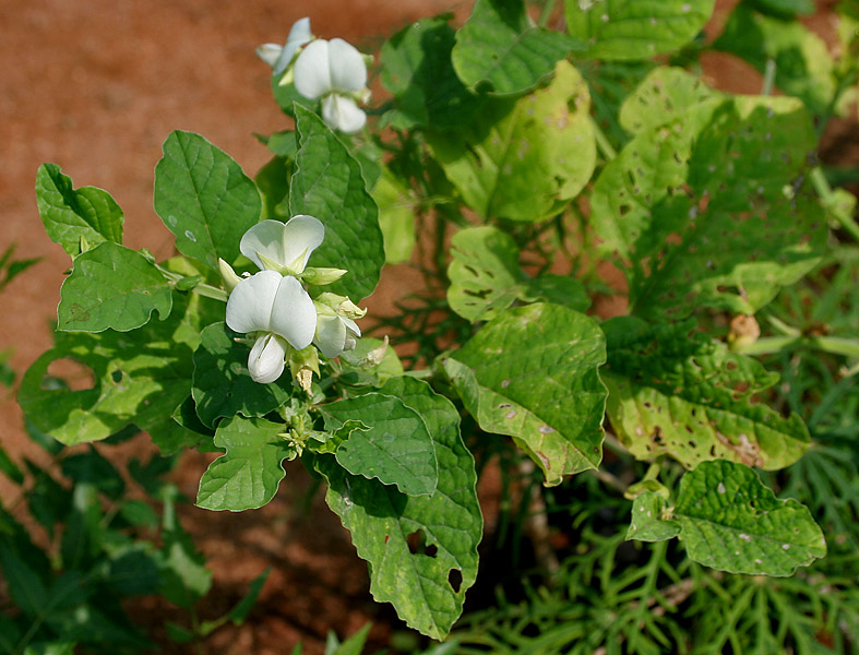 Crotalaria verrucosa (syn. C. angulosa)- white-flowered (infrequent) form- Blue Rattlepod, Purple popbush, Shack-shack, Tooth-leaf rattlepod, blue-flower rattlepod • Hindi: झुनझुनिया Jhunjhunnia • Marathi: सागर ताग Sagar tag, Ghagari • Tamil: Gilugiluppai • Telugu: Ghelegherinta • Kannada: Gijigiji gida • Bengali: Bansan • Konkani: Kilukiluppai • Sanskrit: Shanpushpi, Brihatapushpi- in Herbal Garden, in Rangareddy district of Andhra Pradesh, India.